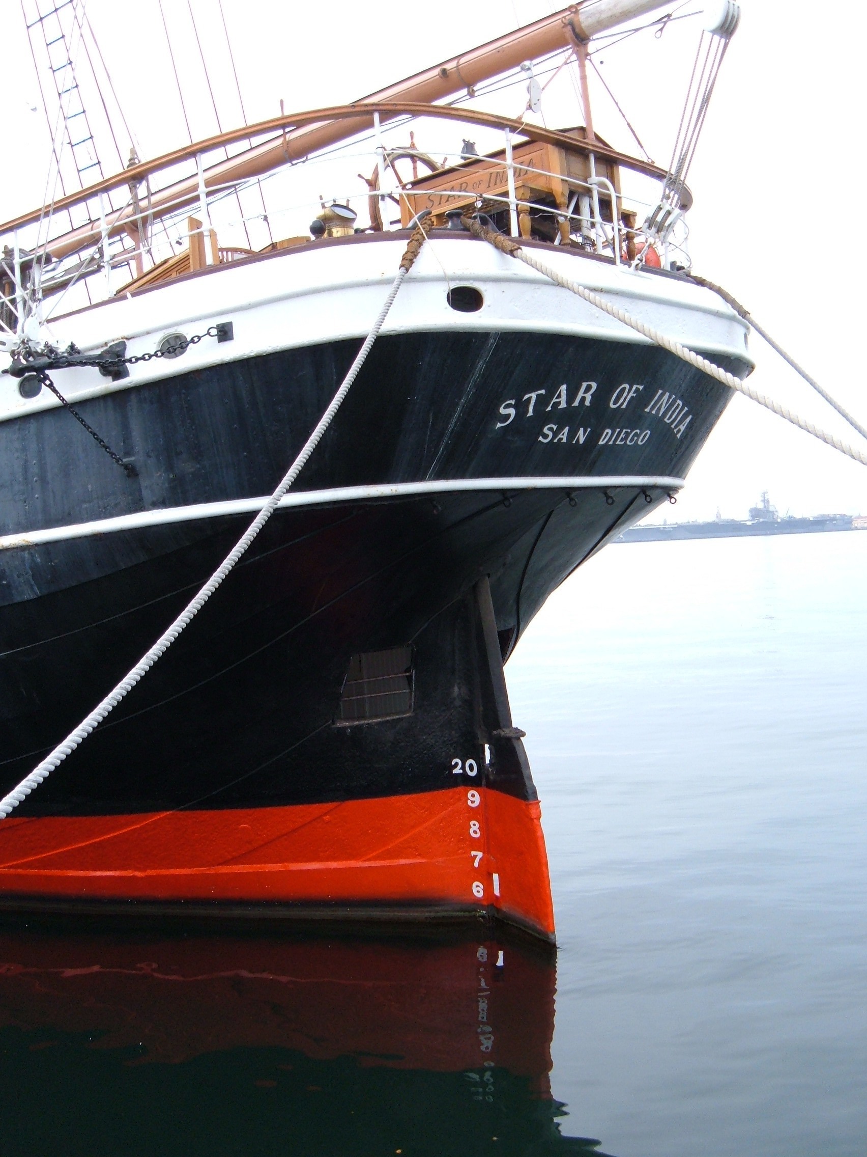 The stern of the Star of India, part of the Maritime Museum of San Diego in San Diego, California.